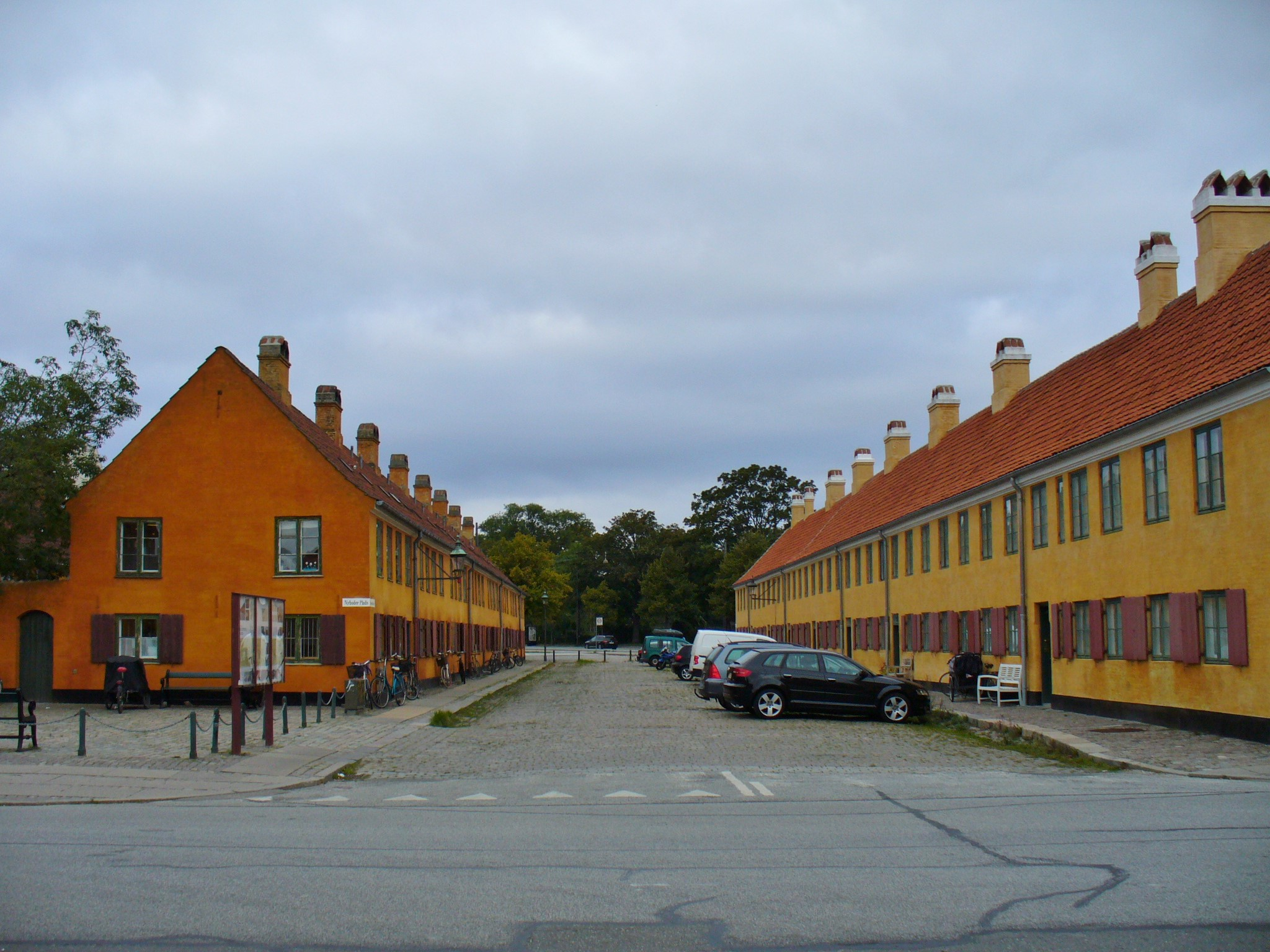 The street Hjertensfrydsgade at Kronprinsessegade in the area Nyboder in Copenhagen. At the left a part of the square Nyboder Plads.